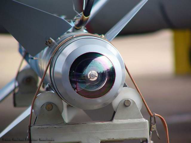 MAA-1A "Piranha" Seeker Head